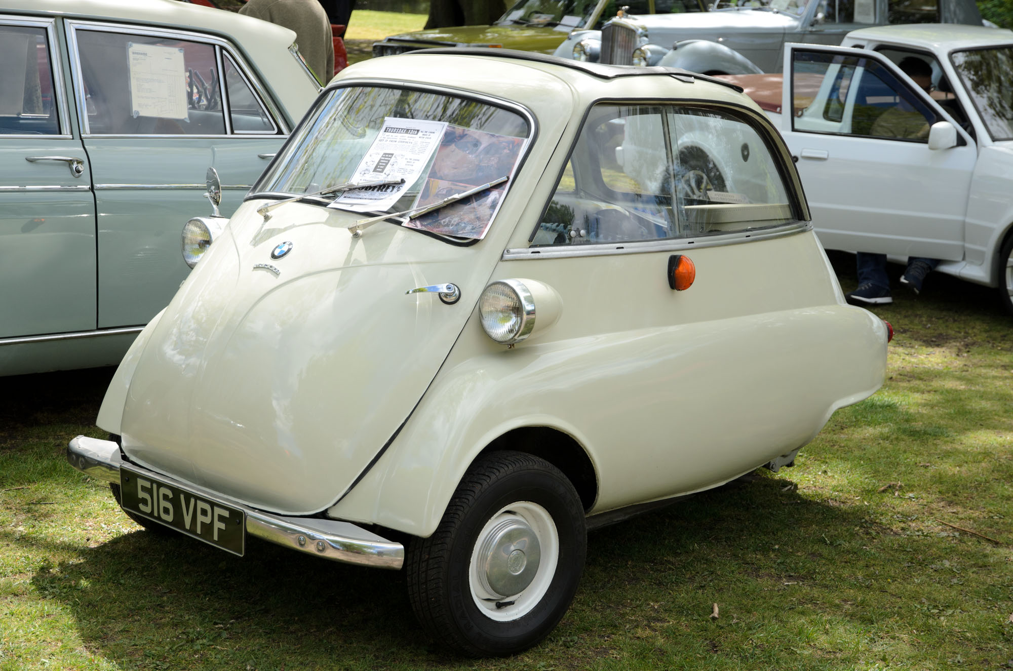 BMW Isetta 300 (1961) Astley Park (Chorley) Classic Car Show 14/05/2017